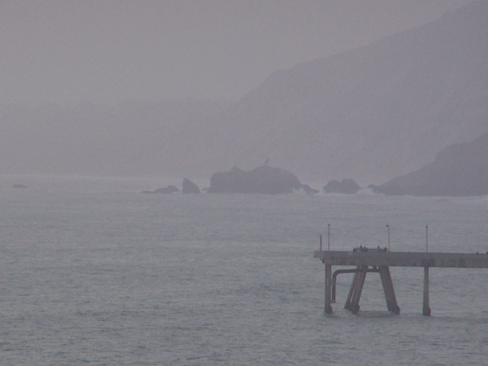 Mussel Rock, as viewed from Mori Point in Pacifica, CA. Mussel Rock, located off the coast of Daly City, CA, is where the San Andreas Fault goes offshore from the San Francisco Peninsula. It is also the approximate location of the epicenter of the 1906 San Francisco earthquake.